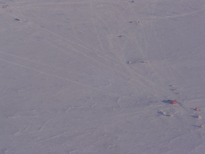 The BAS research base Sky Blu (Palmer Land, Antarctica) from the air.